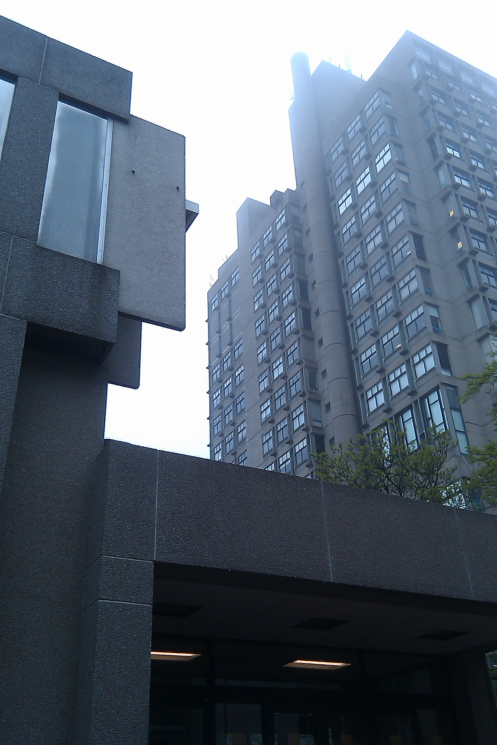 Designed by Jose Luis Sert, the Mugar Memorial Library stands in the foreground while the Law Tower rises in the background on Boston University's Charles River campus.